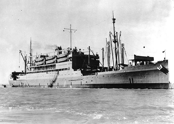 USS McCawley (AP-10, later APA-4), photographed circa 1941-42.